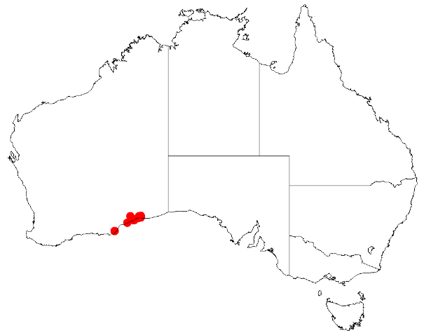 Acacia carnosula Occurrence data from Australasia Virtual Herbarium downloaded from on 8 December 2018